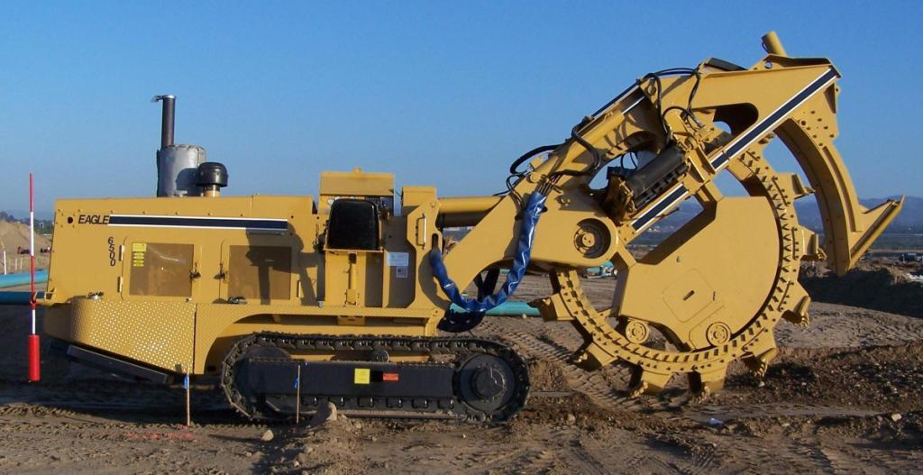 Eagle Wheel Trencher